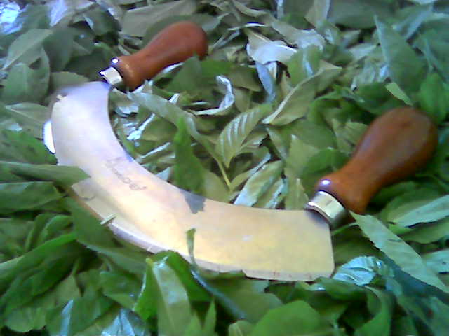 young Molokheya leaves left to dry after rinsing and Makhrata knife